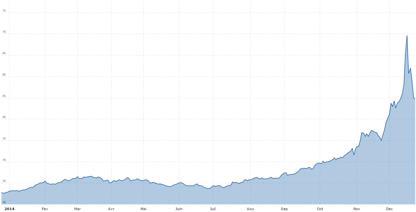 Dollars vs Rouble. 23 december 2013 to 23 december 2014